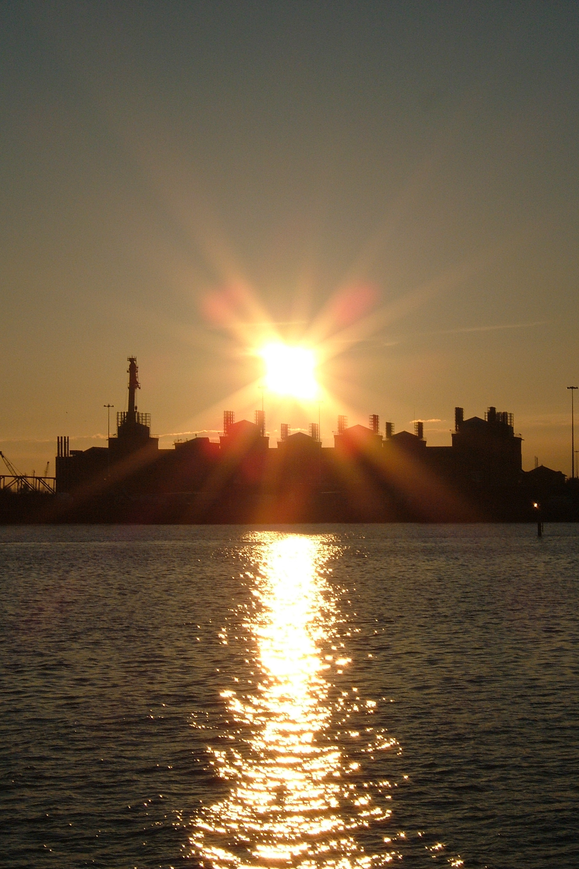 National Oceanography Centre, Southampton (formerly the Southampton Oceanography Centre). Taken from Weston Shore by Andrew Yool on the 1st of May 2004.Cropped from original 4:3 aspect ratio to 6:4 using Paint Shop Pro 9. No other alterations.